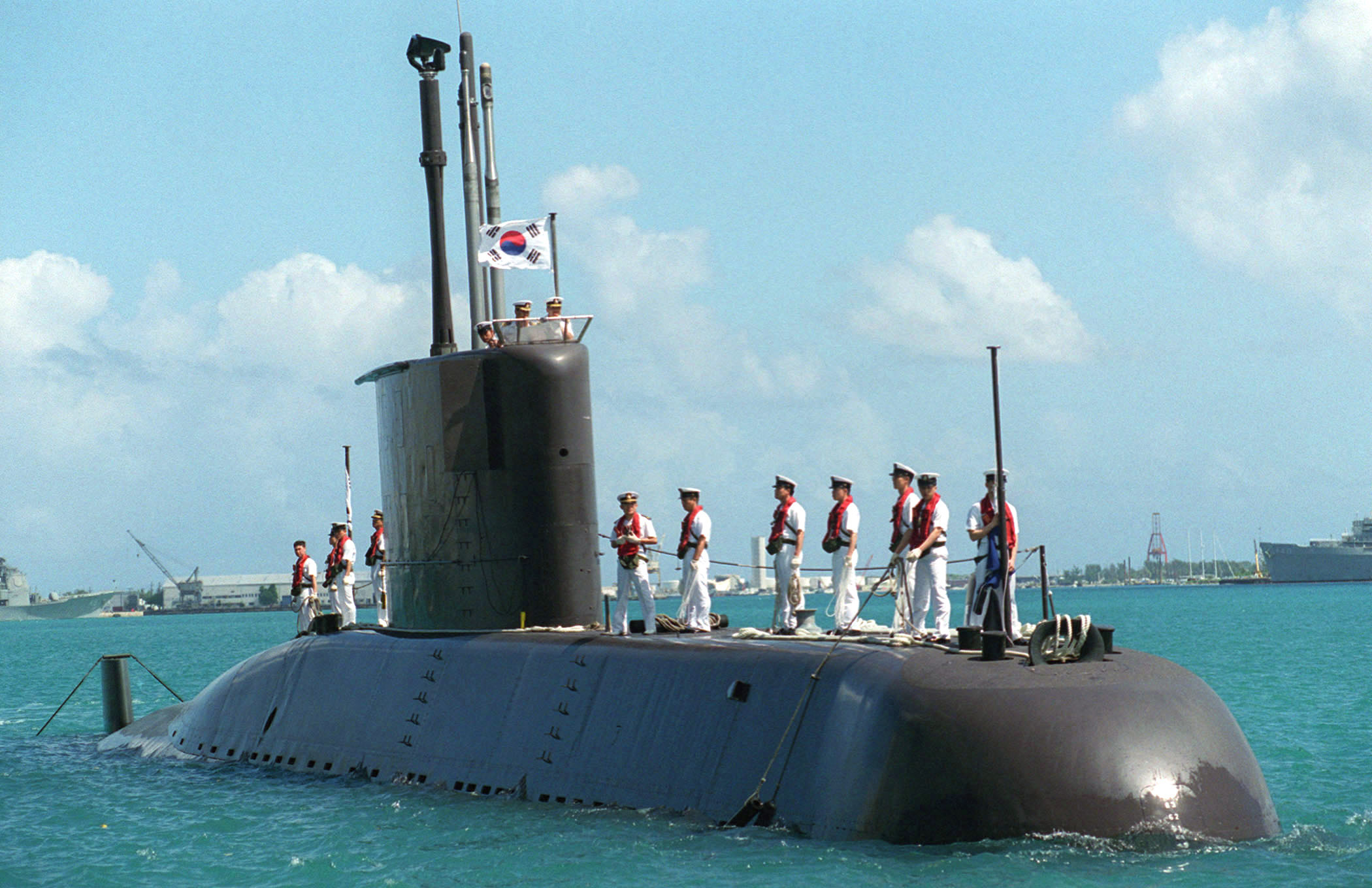 Sailors onboard the Republic of Korea Navy submarine Lee Chun (SS 062) stand at the ready, as they prepare to go pier-side in Apra Harbor, Guam (USA), on 19 March 1999. The Koreans are joining by other allied forces in Guam to participate in Exercise TANDEM THRUST '99. Korean ships participated in HARPOONEX, part of a live-fire, multinational naval exercise with the U.S. Navy during which an decommissioned cruiser USS Oklahoma City (CG-5) was sunk by Lee Chun.